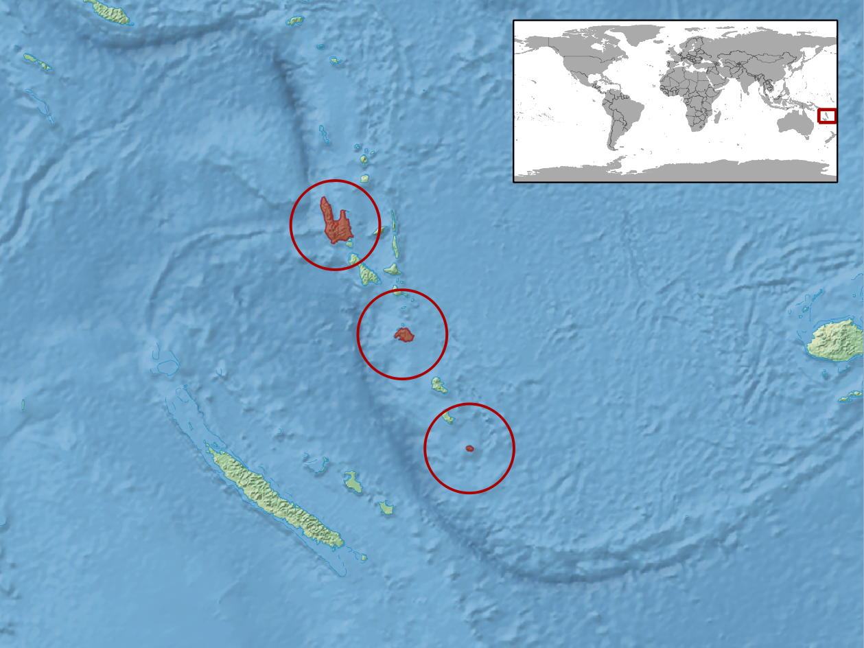 geographic distribution of Lepidodactylus vanuatuensis (Native: Vanuatu)